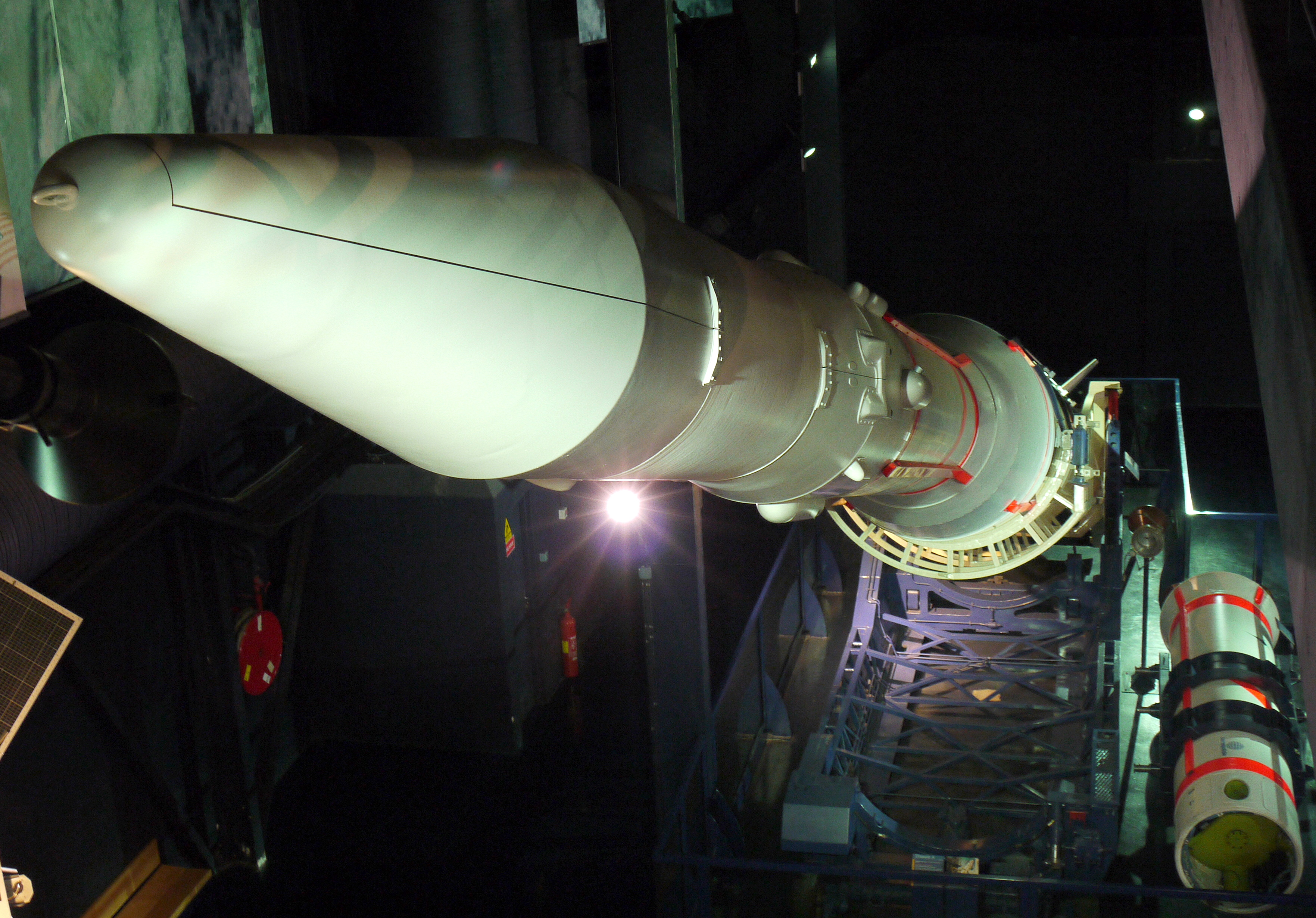 Diamant rocket, Museum of Air and Space Paris, Le Bourget (France)